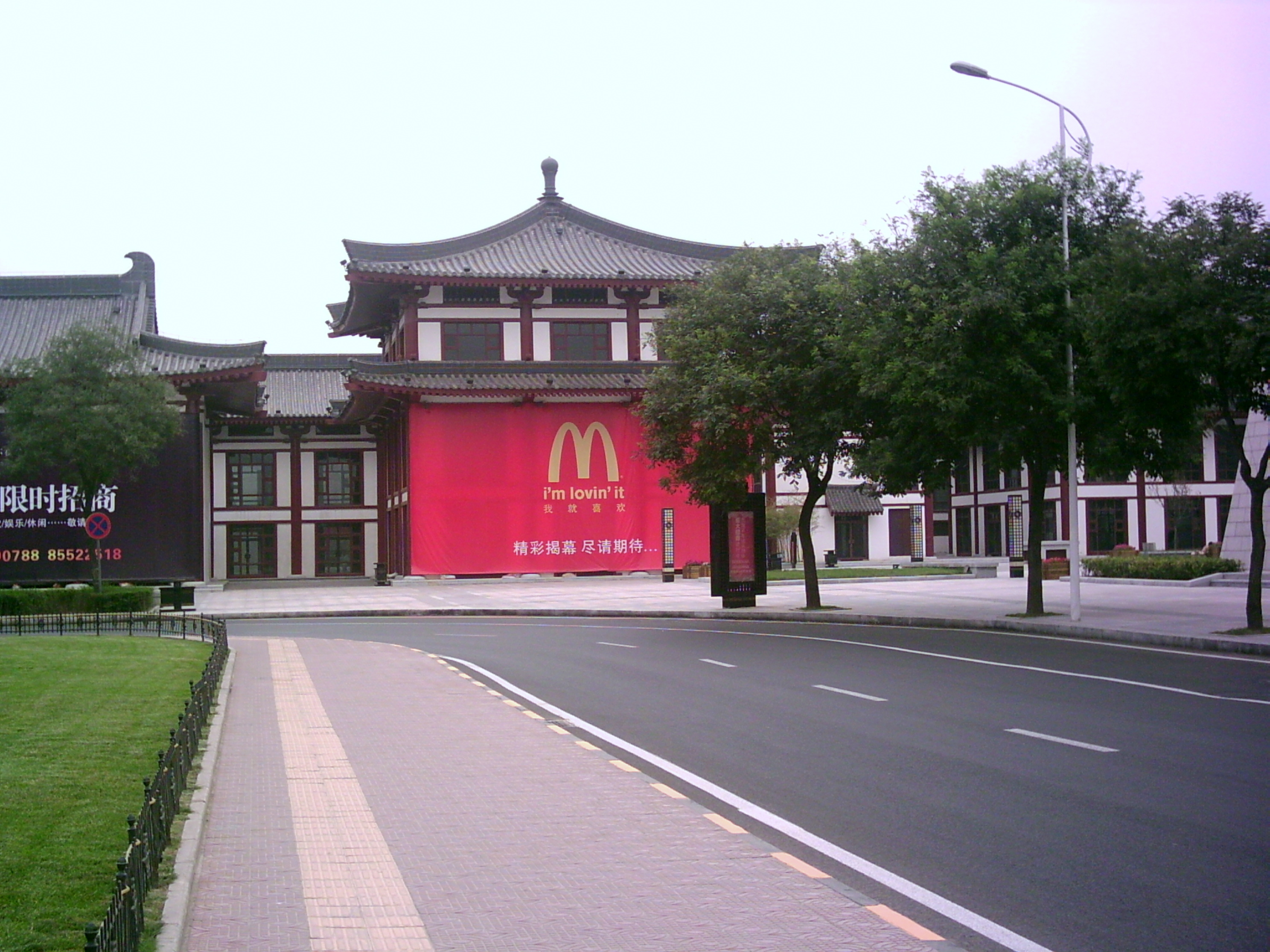 McDonalds 'i'm lovin' it' worldwide campaign in China